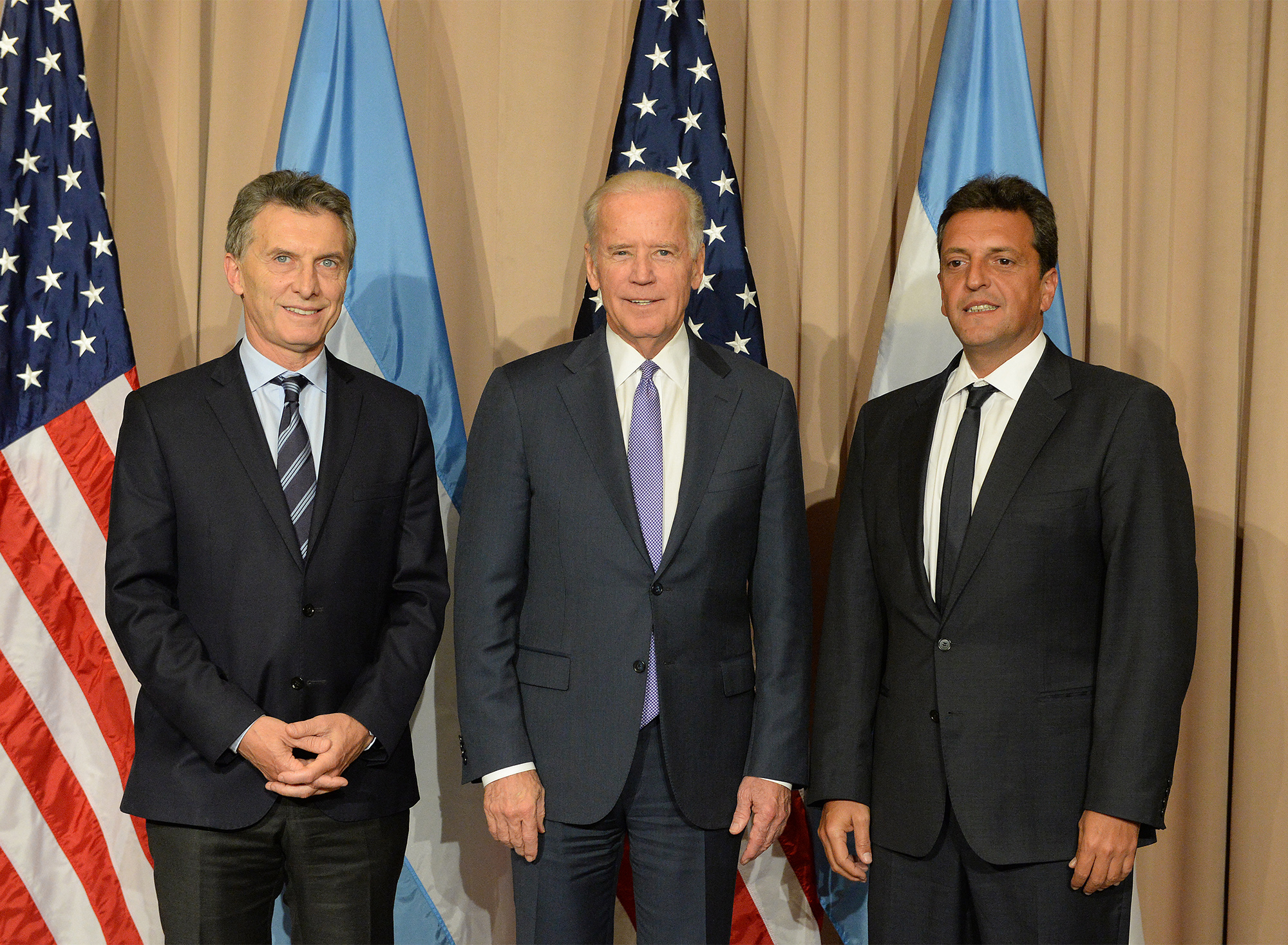 Argentina's president Mauricio Macri with vicepresident of the United States Joe Biden and Deputy Sergio Massa